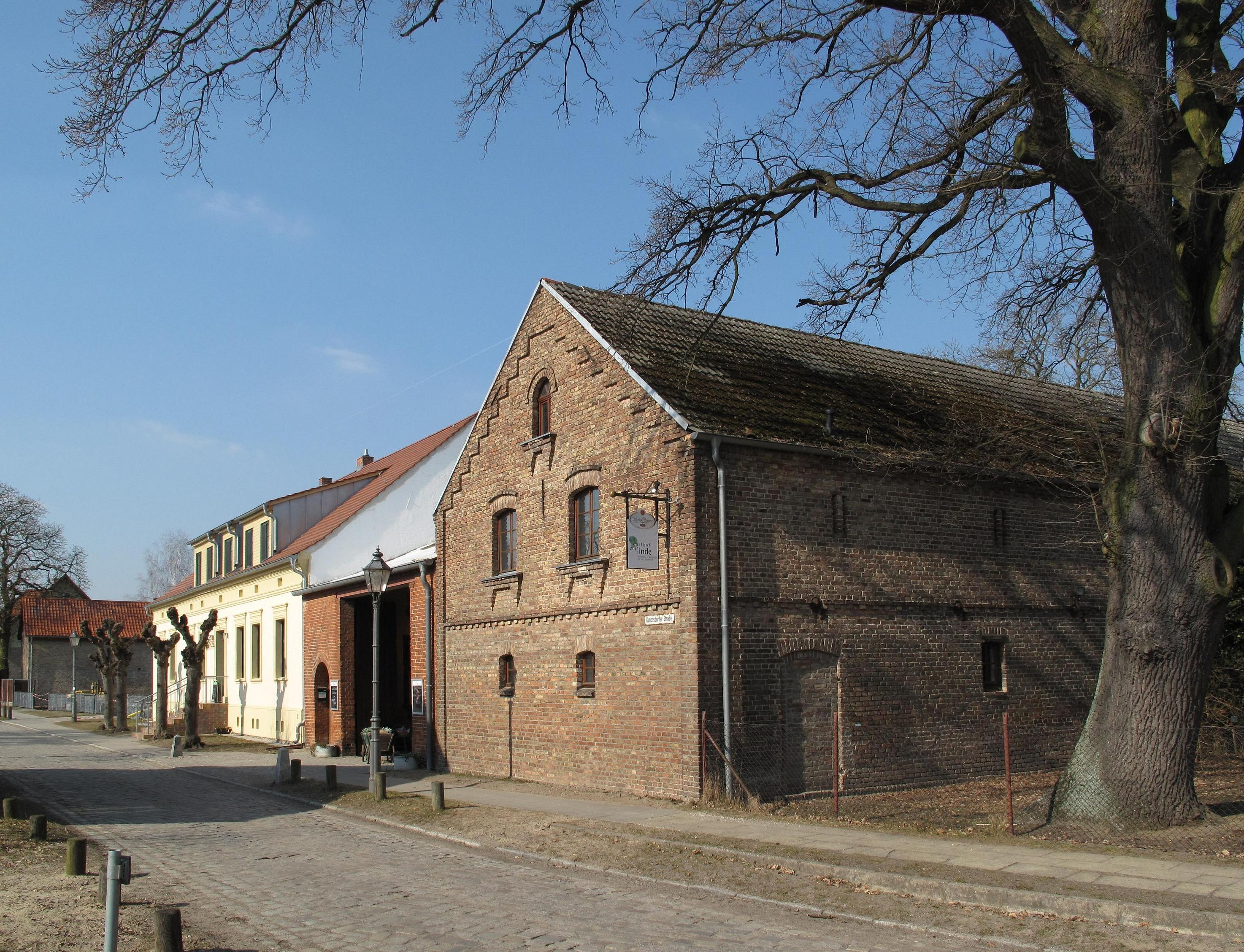 Listed inn Zur Linde (german for: to the lime tree) in Wildenbruch. Wildenbruch is a part of Michendorf in the district Potsdam-Mittelmark, state Brandenburg, Germany.